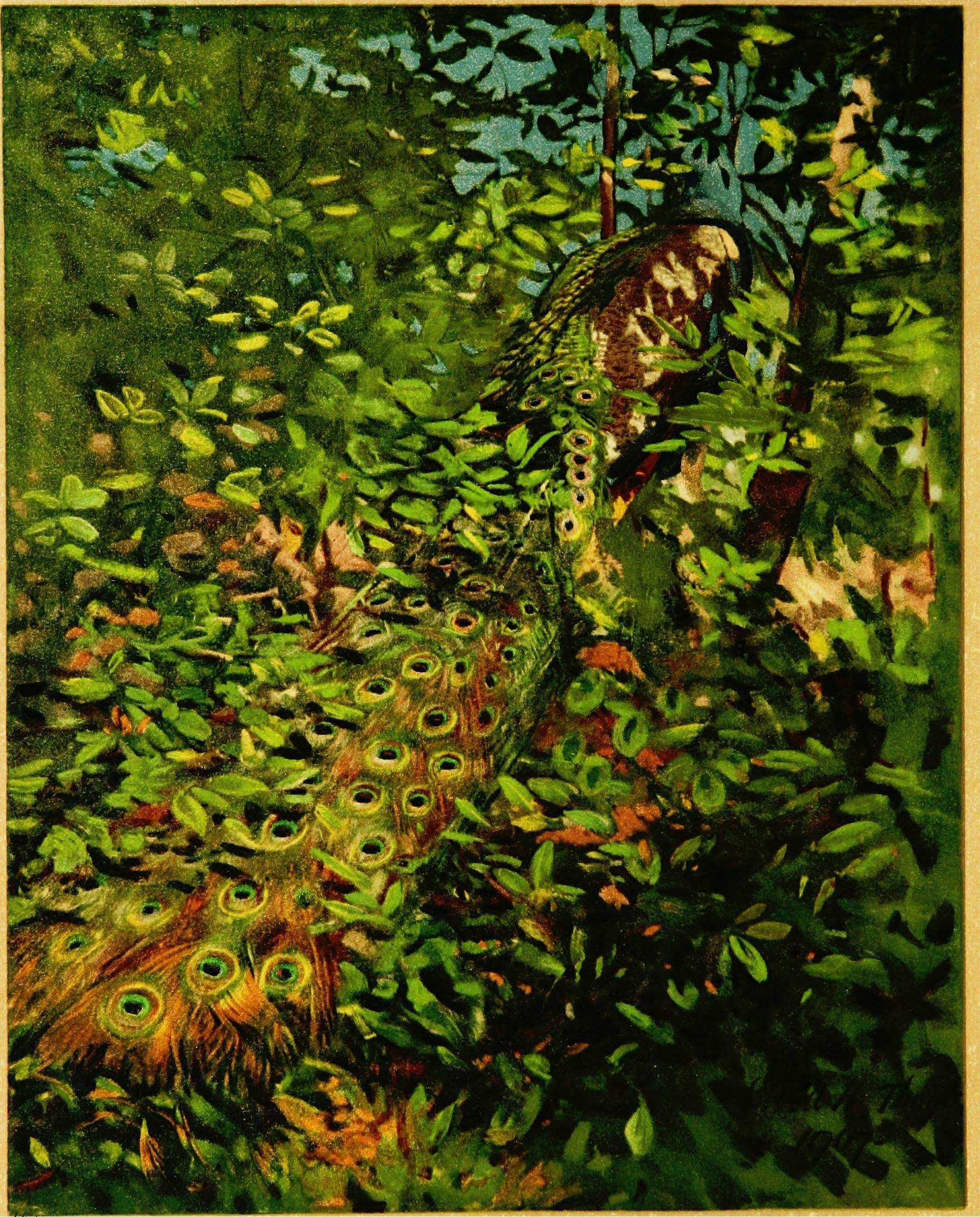 Title: Concealing-coloration in the animal kingdom; an exposition of the laws of disguise through color and pattern: being a summary of Abbott H. Thayer's discoveries Year: 1909 (1900s) Authors: Thayer, Gerald Handerson, 1883-1939 Thayer, Abbott Handerson, 1849-1921 Subjects: Animals Publisher: New York, The Macmillan Co. Text Appearing Before Image: p. 82; figure 82, p. 82 Wood Creeper. See Creeper Wood Duck. See Duck Woodpecker, 49, 78, 114, 115, figure 83, p. 114 Wood Warbler. See Warblers Wryneck, 49, 50 Young animals, patterns of different fromadults of same species, 60, 80, 82, 83,145, 169 Zebra, 135-140, figure 88, p. 135; figure 89, p. 136; figure 90, p. 138; figure 91, p. 138; and figure 92, p. 138Zoril, African, 147, 150 260 Text Appearing After Image: EXPLANATION OF PI^TE I PEACOCK IN THE WOODS. painted by Abbott H. Thayer, assisted by Richard S. Meryman .The Peacocks splendor is the eflfect of a marvellous combination of obliterative designs,in forest-colors and patterns. From the golden-green of the forests sunlight, through all itstints of violet-glossed leaves in shadow, and its copipery glimpses of sunlit bark or earth, allimaginable forest-tones are to be found in this birds costume; and they melt him into thescene to a degree past all human analysis. Up in the trees, seen from below, his neck is at its bluest, and when sunlit, perfectlyrepresents blu6 sky seen through the leaves. Looked down on, in the bottom shades of the-jungle, it has rich green sheens which melt it into the surrounding foliage. His back, inall lights, represents golden-green foliagfe, and his wings picture tree-bark, rockj-etc., insunlight and in shadow. His green-blue head is equipped with a crest which greatly helpsit against revealing its contour whencu31924022546406